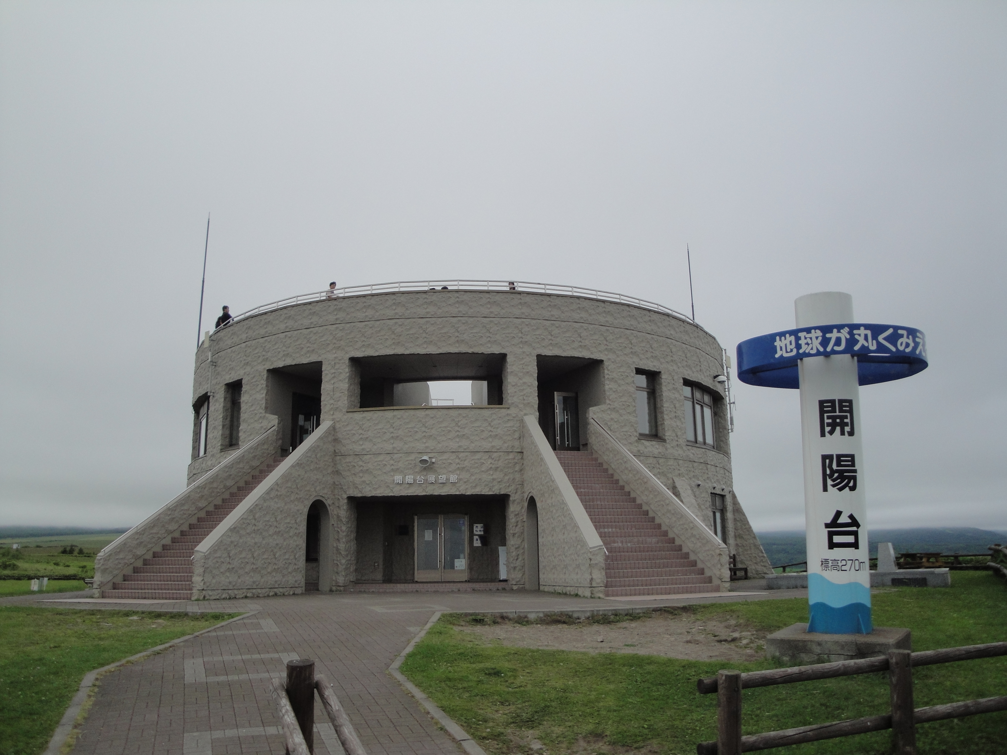 Kaiyodai